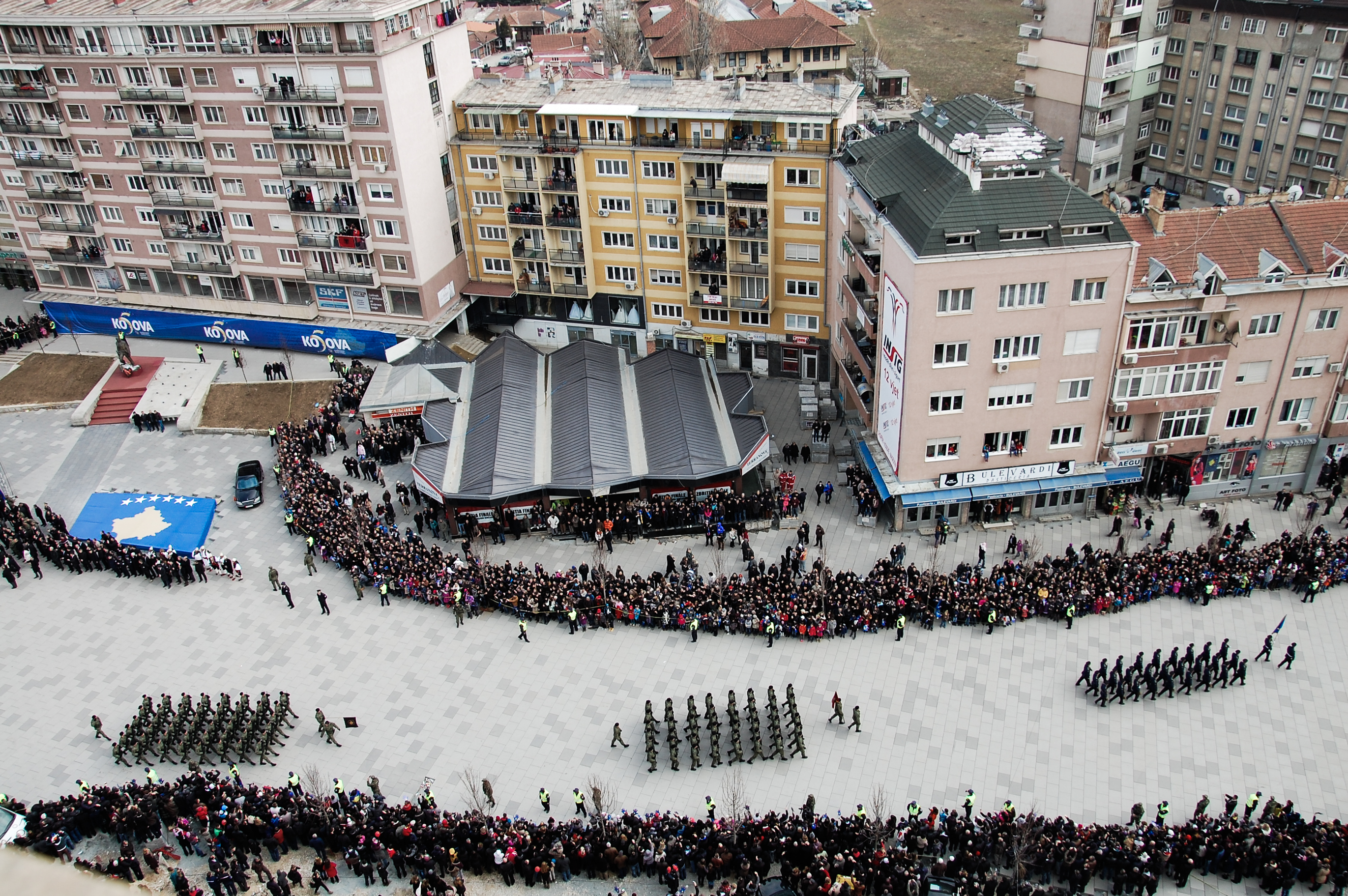 Celebrating the independence day .